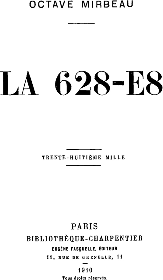 Sketches of a journey (1907) by Octave Mirbeau (1848-1917)